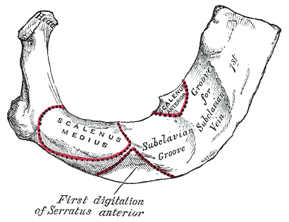 Peculiar ribs. First rib. Atipic rib.